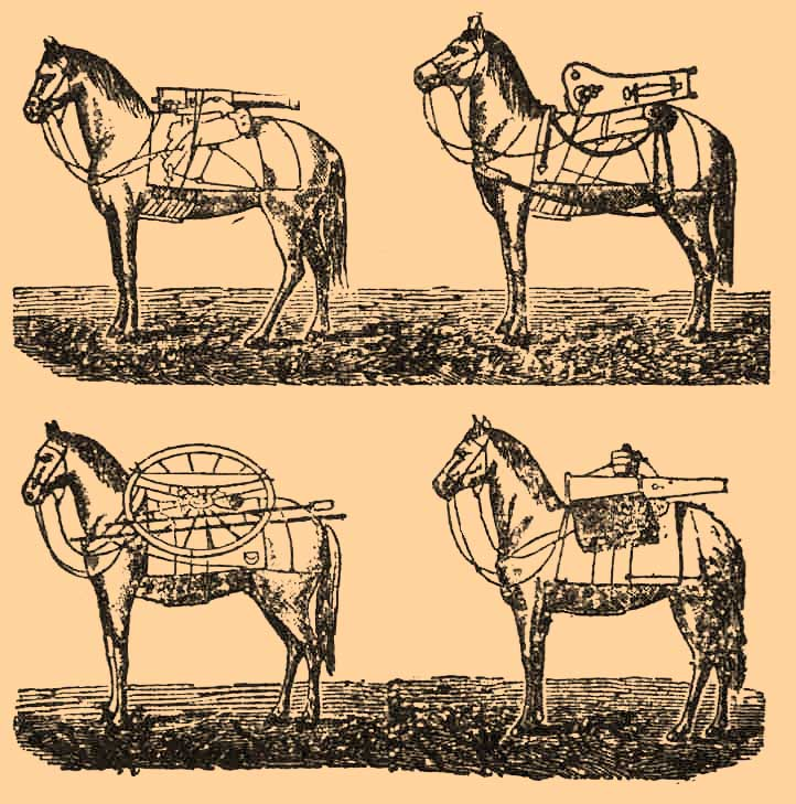 Illustration from Brockhaus and Efron Encyclopedic Dictionary (1890—1907)